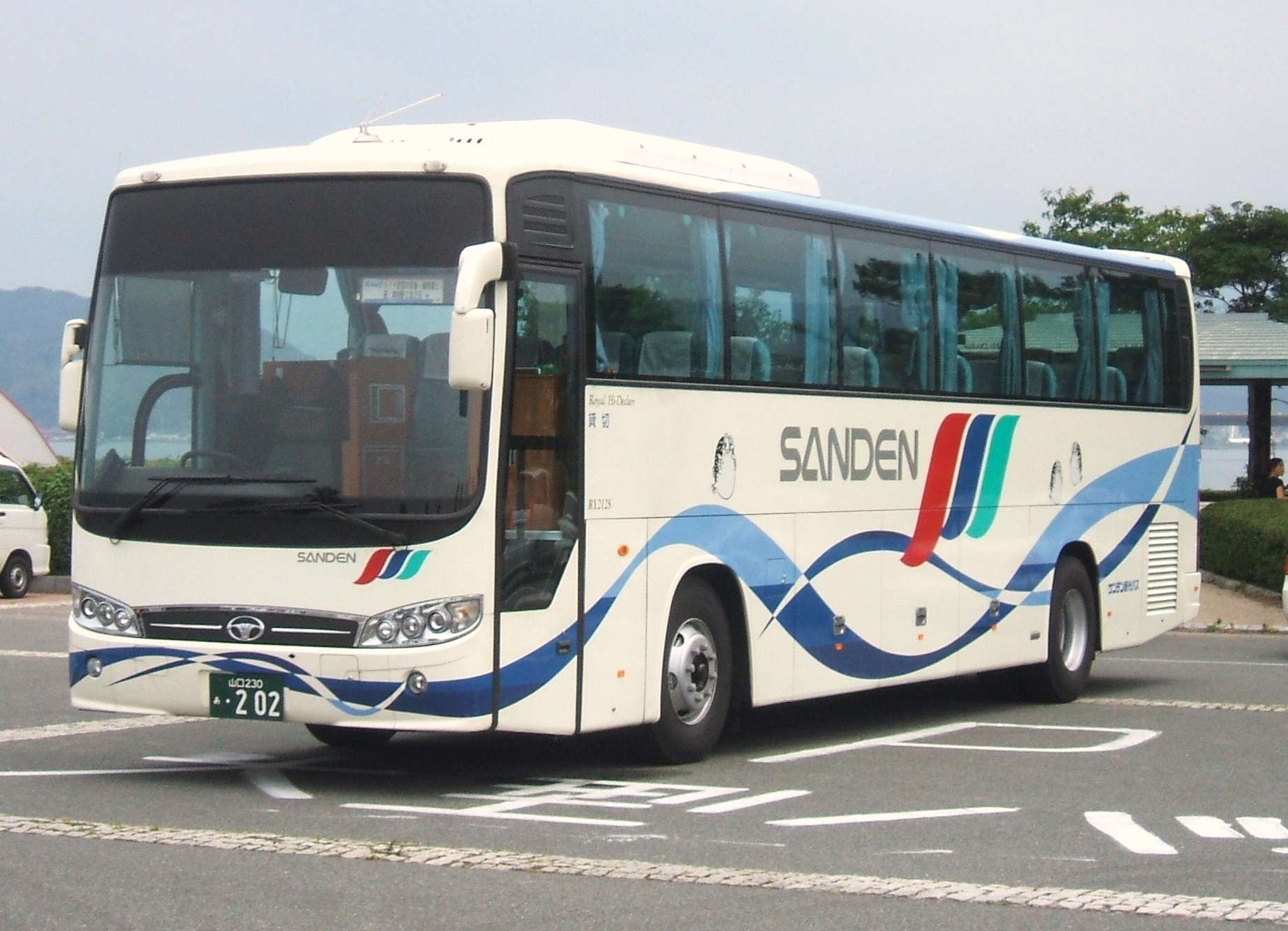 Daewoo Bus BX212H(Sanden Siteseeing-Bus)